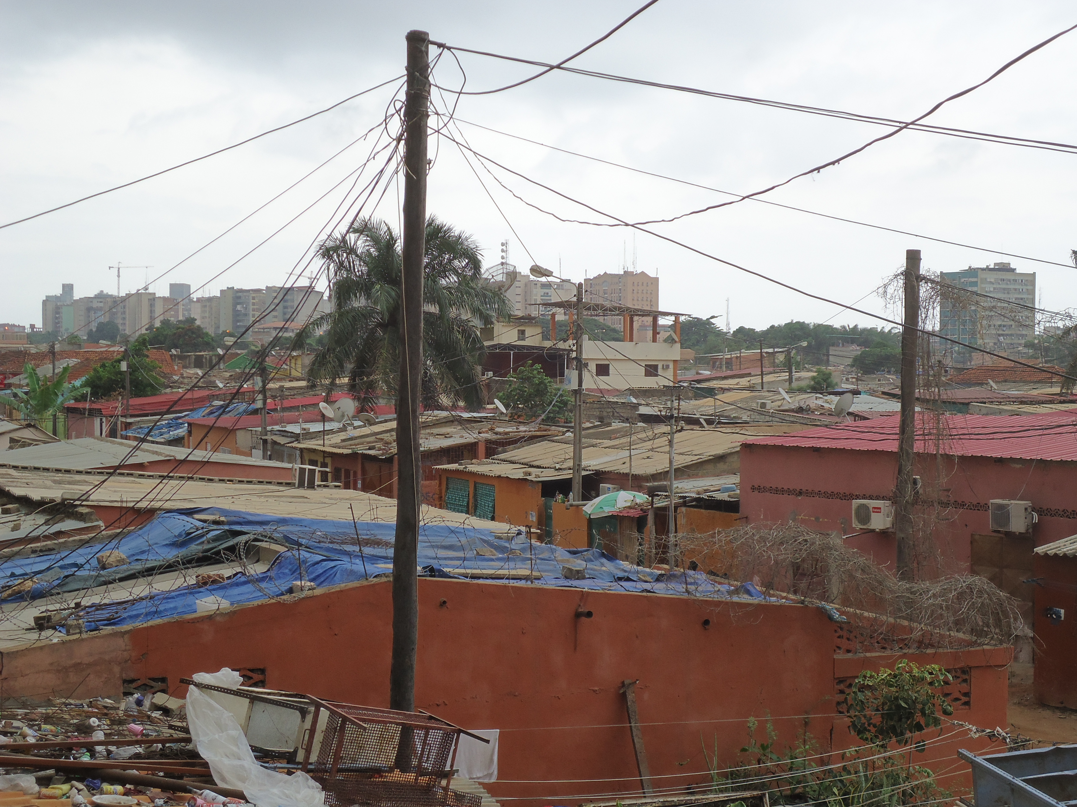 Streets and buildings of Luanda. Photo by Fabio Vanin, Luanda, 2013.